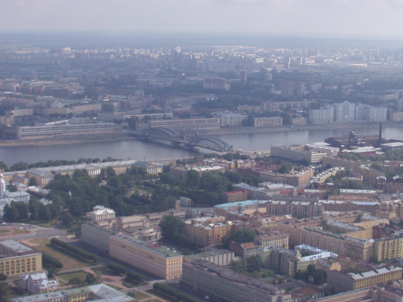 Peter the Great bridge